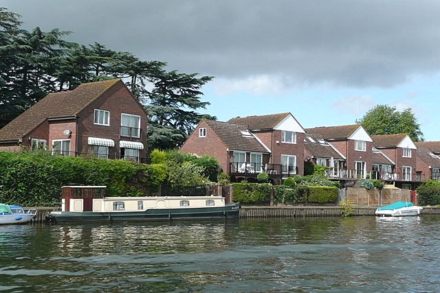 Houses at Old Windsor Some more modern and modest houses line the river at Old Windsor. The boat is an unusual cross between a narrowboat style and Dutch barge style.